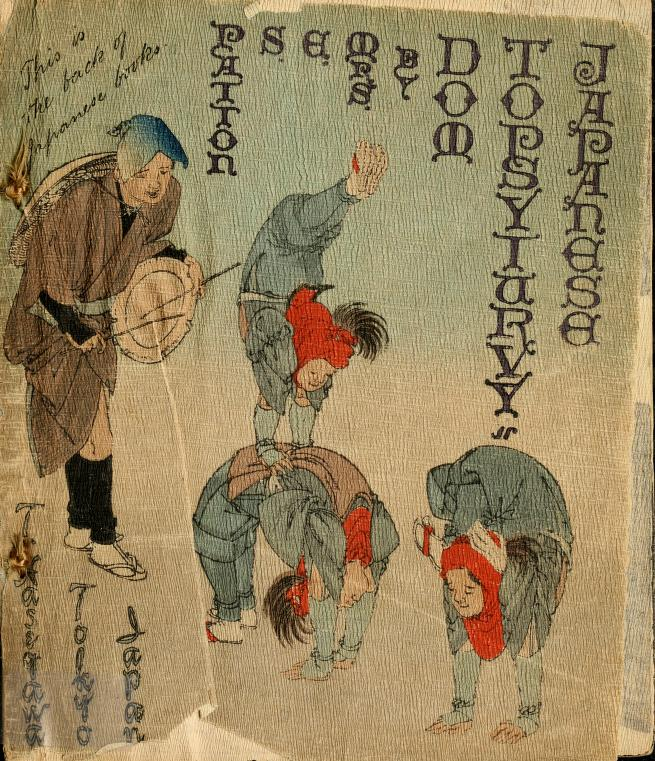 Cover of T. Hasegawa's edition of Japanese Topsyturvydom by Mrs. E.S. Patton, 1896.